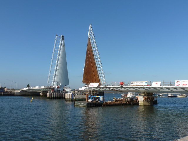 Poole: the Twin Sails bridge takes shape. The road surface has not yet been added